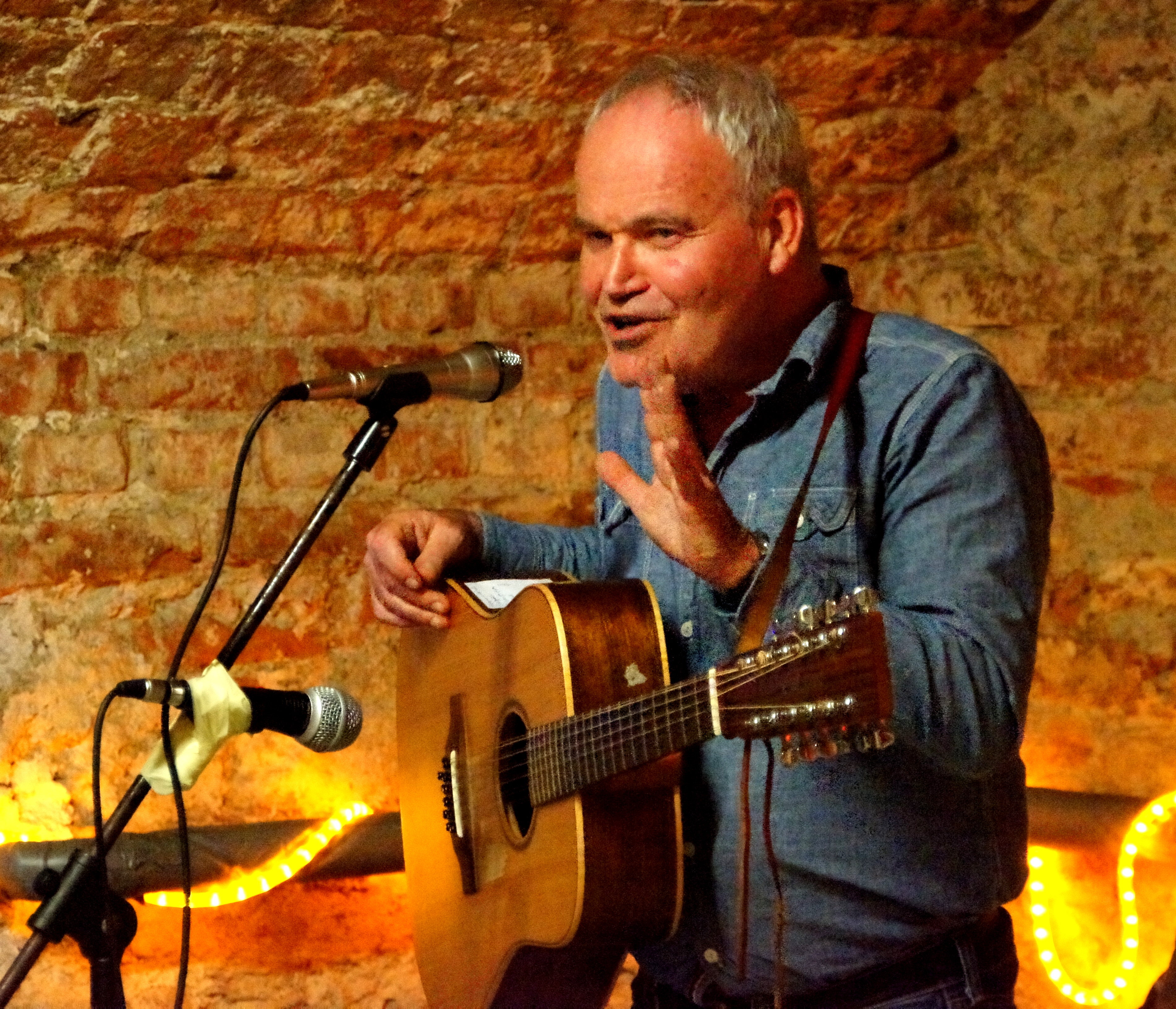 Austrian (Paris-born) musician, writer and stage director category:Thomas Declaude, performing on ‚Xi_ground‘ stage, Vienna. In order to KIS: This guy is still alife&kickin'. DOT. [w.]